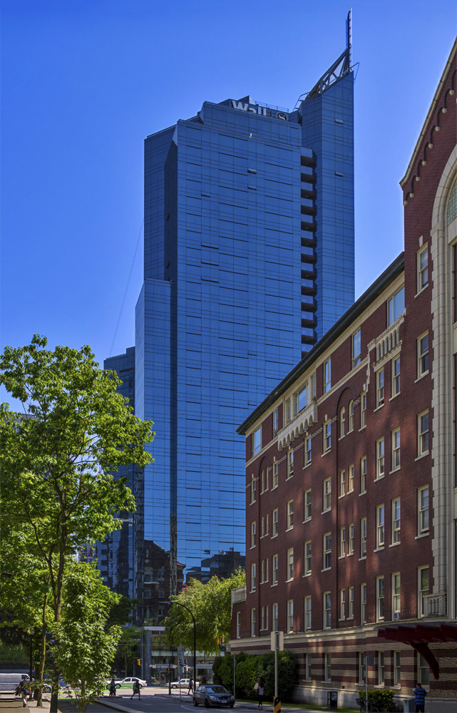 Sheraton Wall Centre hotel tower in Vancouver.